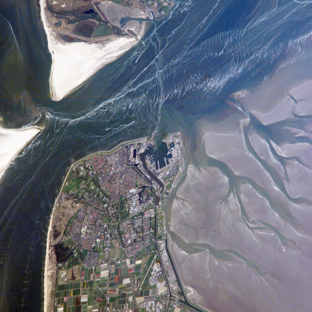 The Dutch city of Den Helder, the home port of the Dutch Royal Navy.